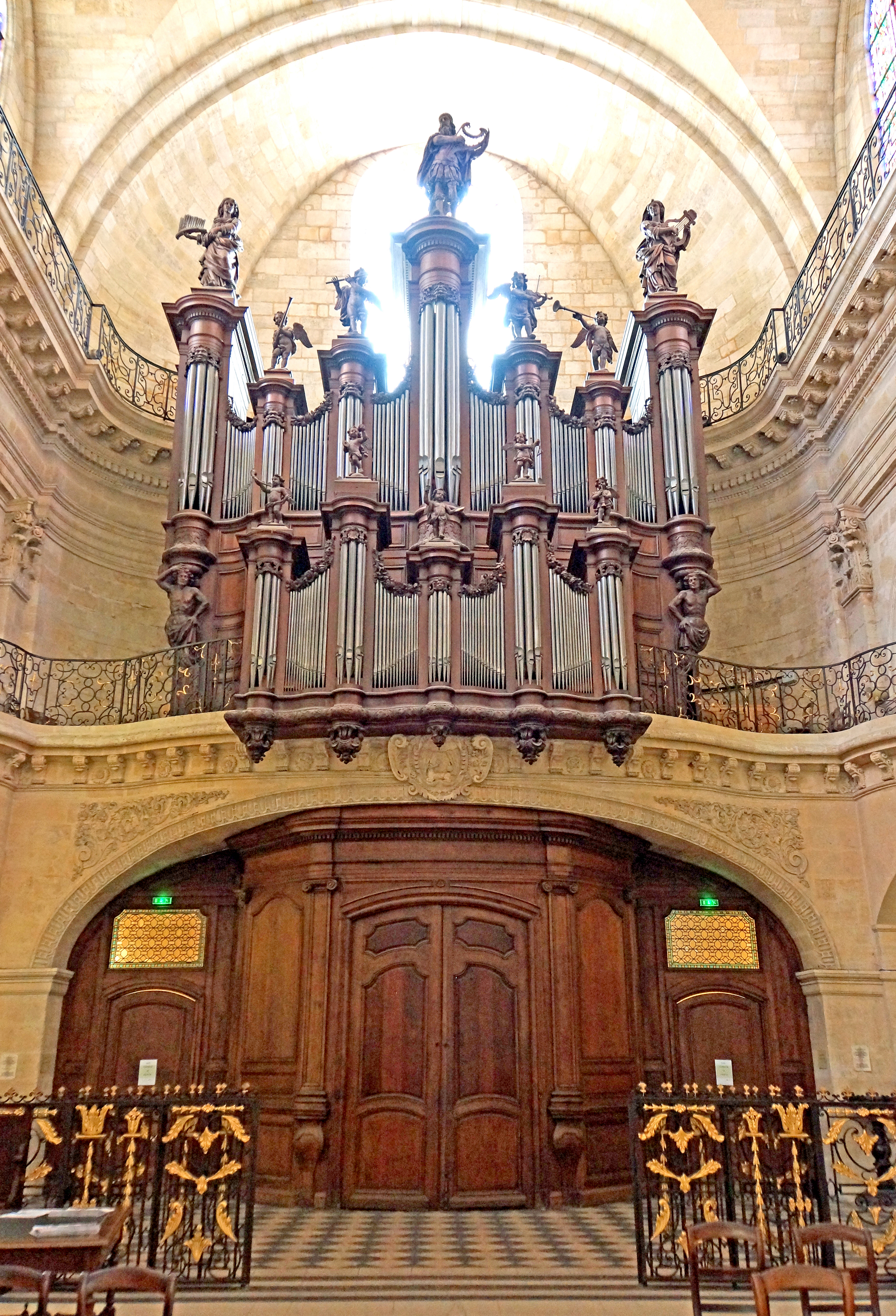 PLEASE, NO invitations or self promotions, THEY WILL BE DELETED. My photos are FREE to use, just give me credit and it would be nice if you let me know, thanks. Beautiful organ pipes, sculptures and steel work. This former Dominican chapel was built at the end of the 17th century.